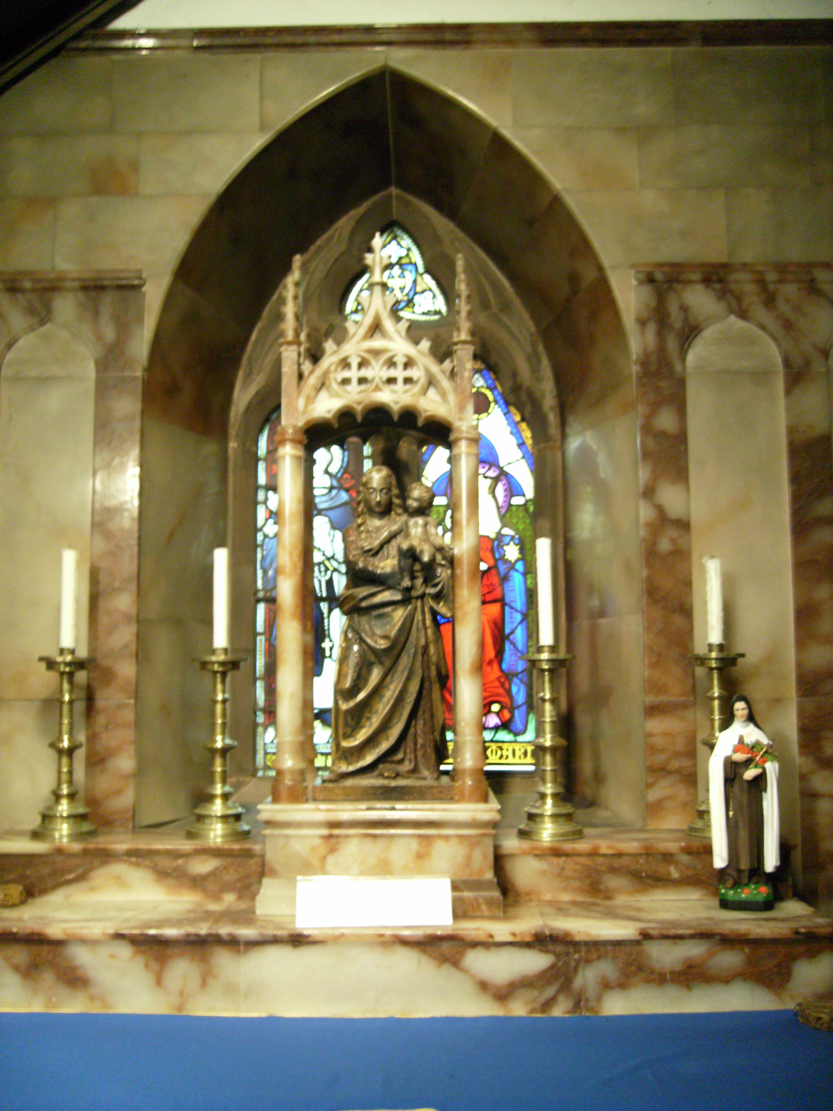 Madonna and child, thought to have been damaged during the English Civil War, and long considered thaumaturgic, at St Mary's Roman Catholic church, Brewood, Staffordshire, England.